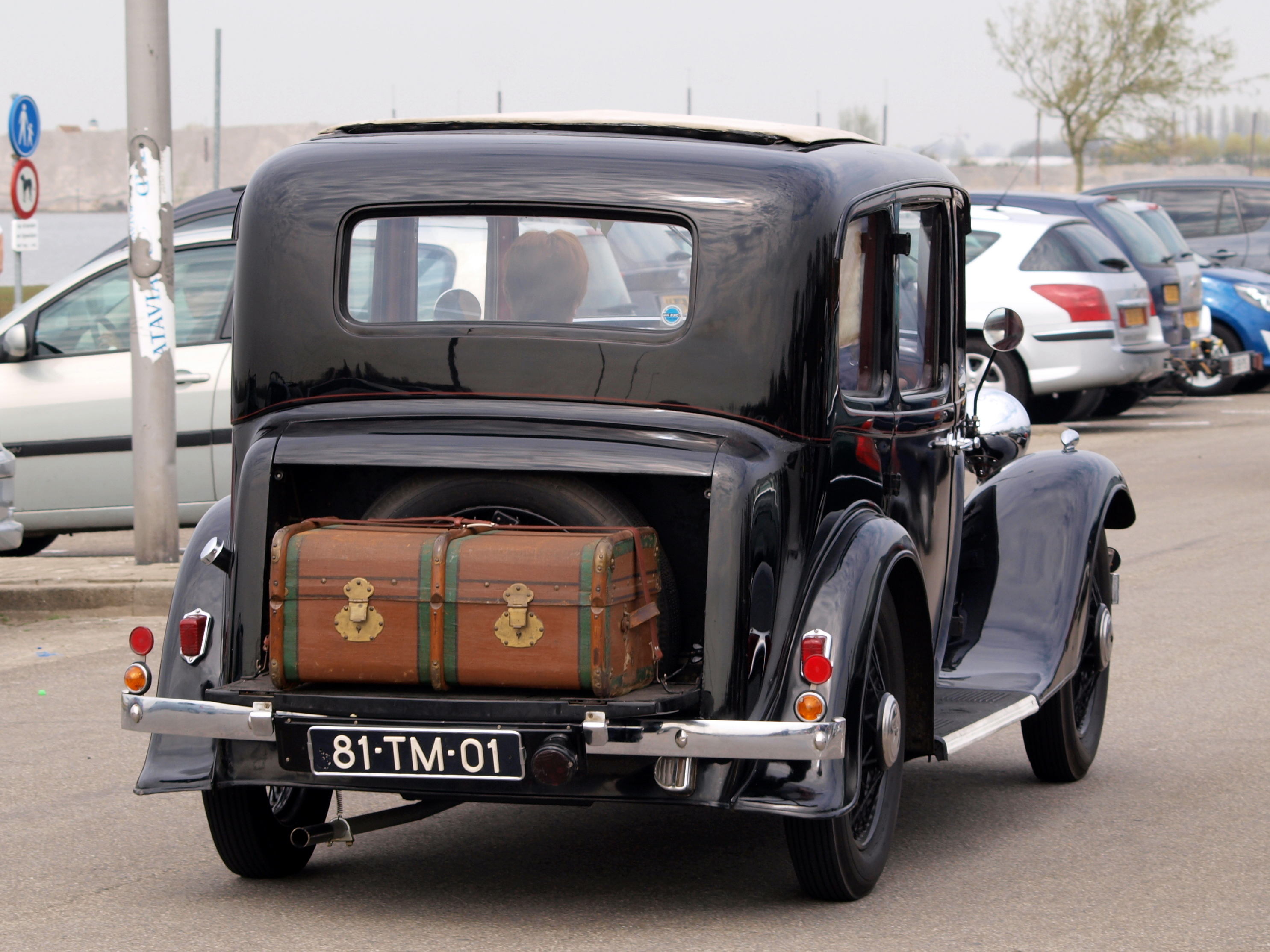 Cars and motorcycles photographed at the Voorschotense Oldtimer Vereniging Show, Valkenburgse meer, The Netherlands. OLYMPUS DIGITAL CAMERA